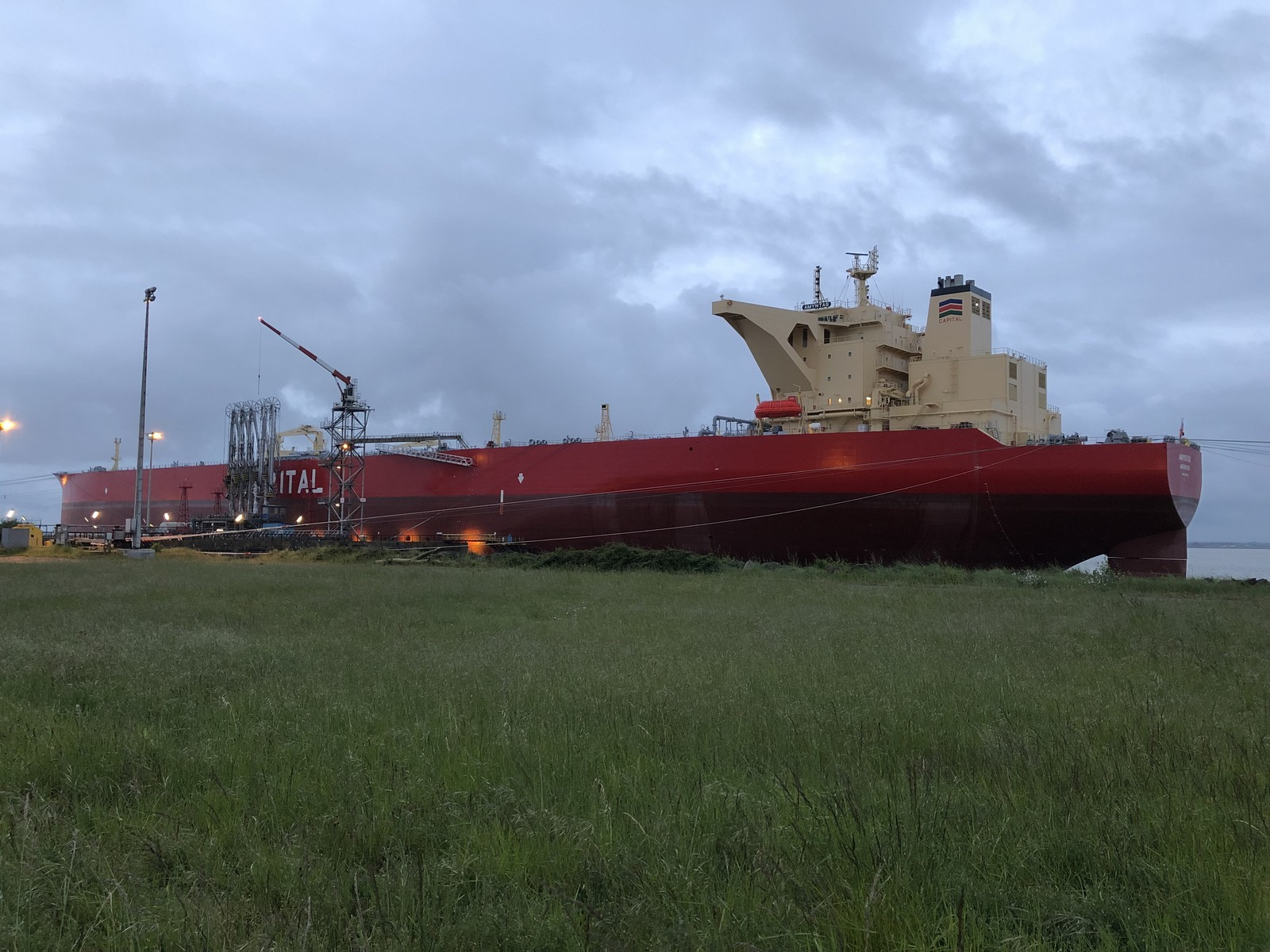 VLCC Supertanker AMYNTAS berthing at Donges oil terminal